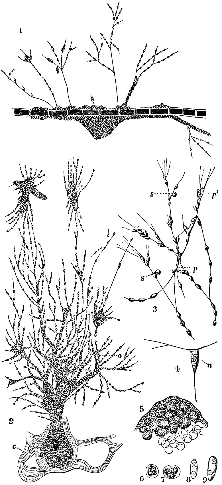 Labyrinthulidea. 1. A colony or “cell-heap” of Labyrinthula vitellina, Cienk., crawling upon an Alga. 2. A colony or “cell-heap” of Chlamydomyxa labyrinthuloides, Archer, with fully expanded network of threads on which the oat-shaped corpuscles (cells) are moving. o, Is an ingested food particle; at c a portion of the general protoplasm has detached itself and become encysted. 3. A portion of the network of Labyrinthula vitellina, Cienk., more highly magnified. p, Protoplasmic mass apparently produced by fusion of several filaments. p′, Fusion of several cells which have lost their definite spindle-shaped contour. s, Corpuscles which have become spherical and are no longer moving (perhaps about to be encysted). 4. A single spindle cell and threads of Labyrinthula macrocystis, Cienk. n, Nucleus. 5. A group of encysted cells of L. Macrocystis, embedded in a tough secretion. 6, 7. Encysted cells of L. macrocystis, with enclosed protoplasm divided into four spores. 8, 9. Transverse division of a non-encysted spindle-cell of L. macrocystis.